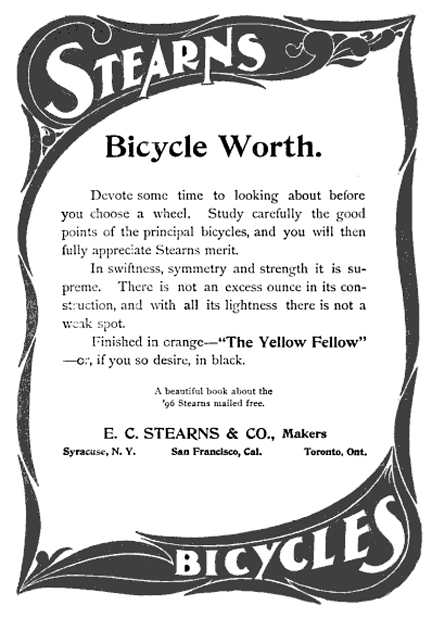 E. C. Stearns & Company - White Flyer in either white or black - 1896